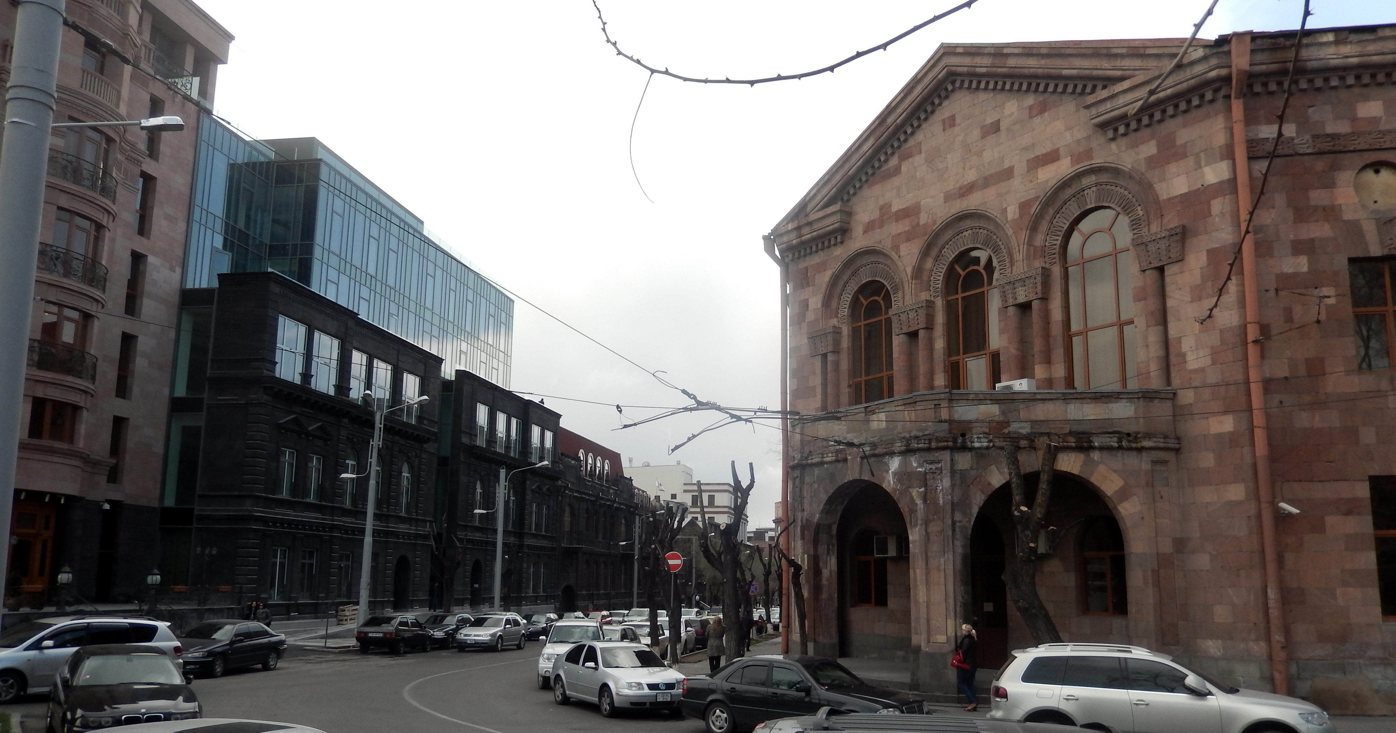 Melik Adamyan Street, Yerevan